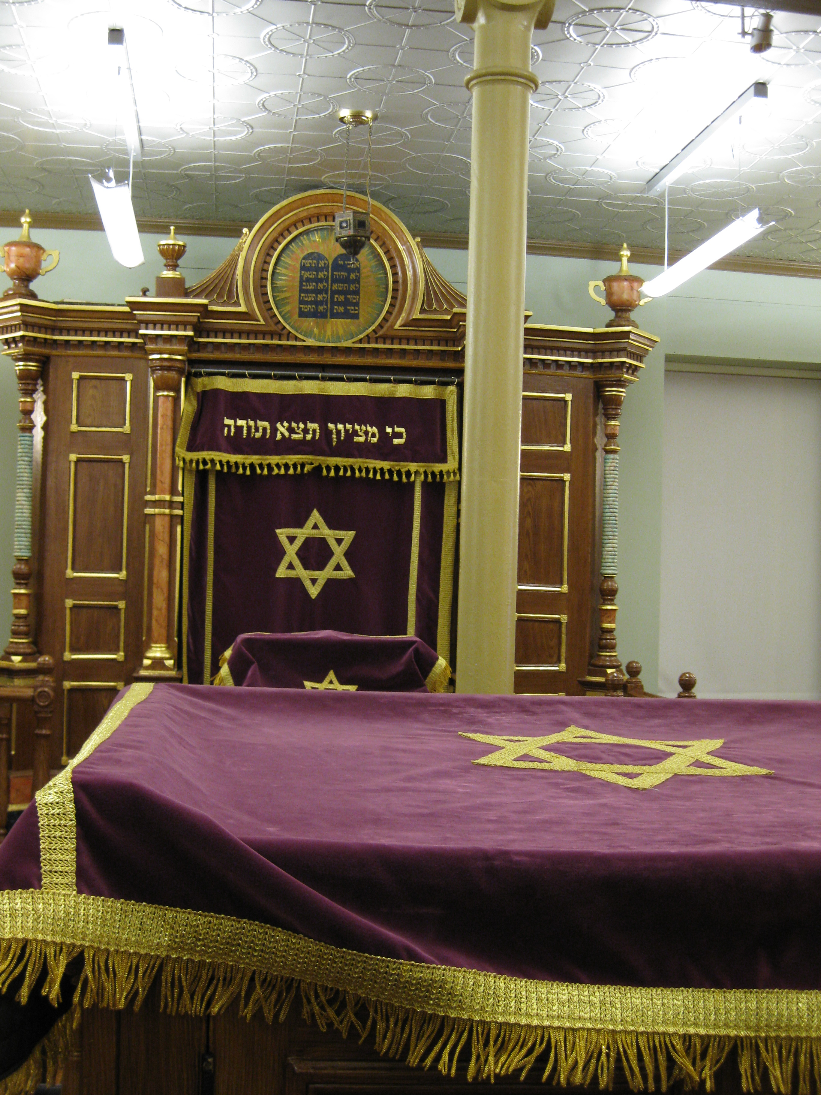 Edridge St Syngogue Beit Midrash